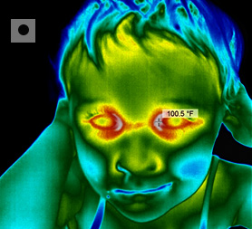 IR temperature measurement for fever screening is properly done at the tear duct (medial canthus of the eye). Since medial canthus measurements are 1 degree centigrade less then body temperature this person should under go further fever screening with an oral thermometer.